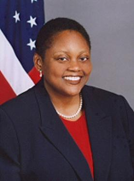 Jendayi E. Frazer, Assistant Secretary for African Affairs